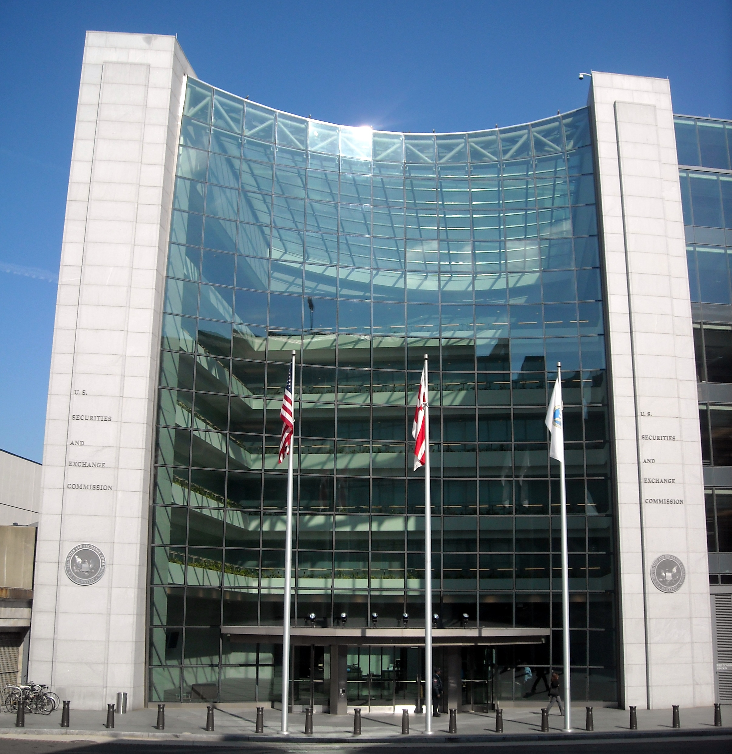 The U.S. Securities and Exchange Commission headquarters located at 100 F Street, NE in the Near Northeast neighborhood of Washington, D.C.